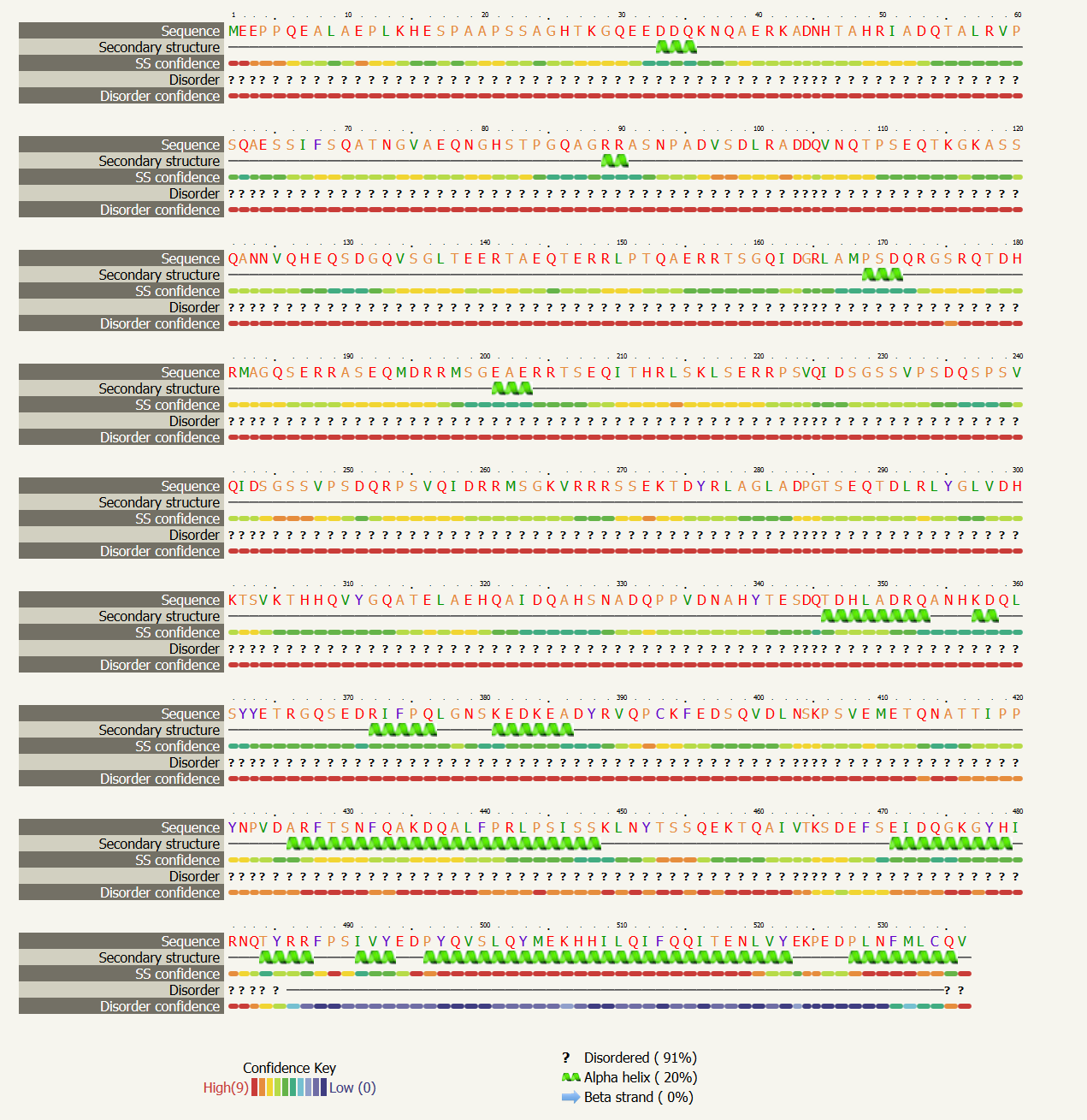 Phyre secondary structure prediction.